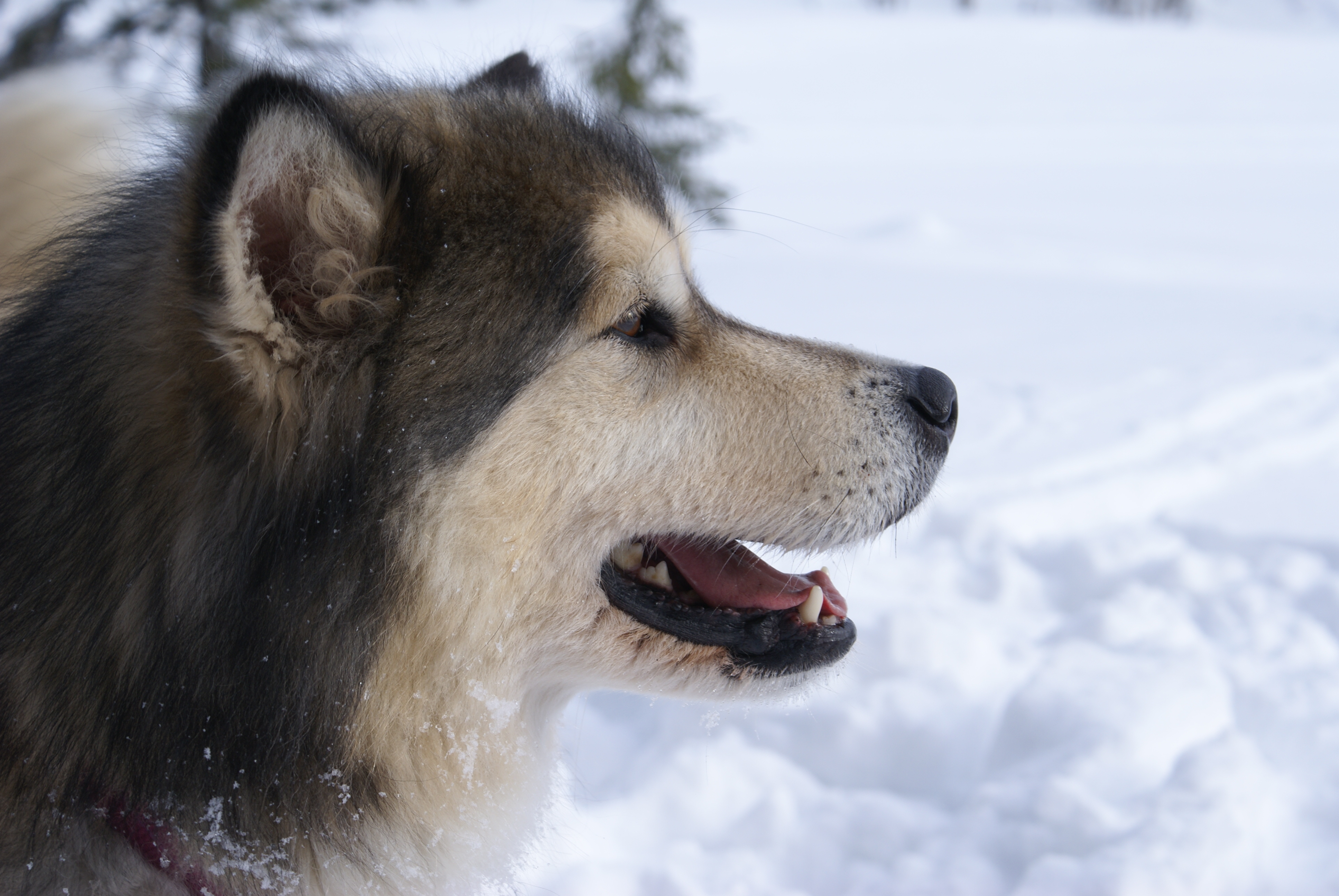 Alaskan Malamute "Inu" in Norway.